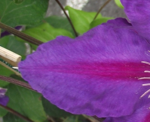 Clematis patens Anna Louise 'Evithree'